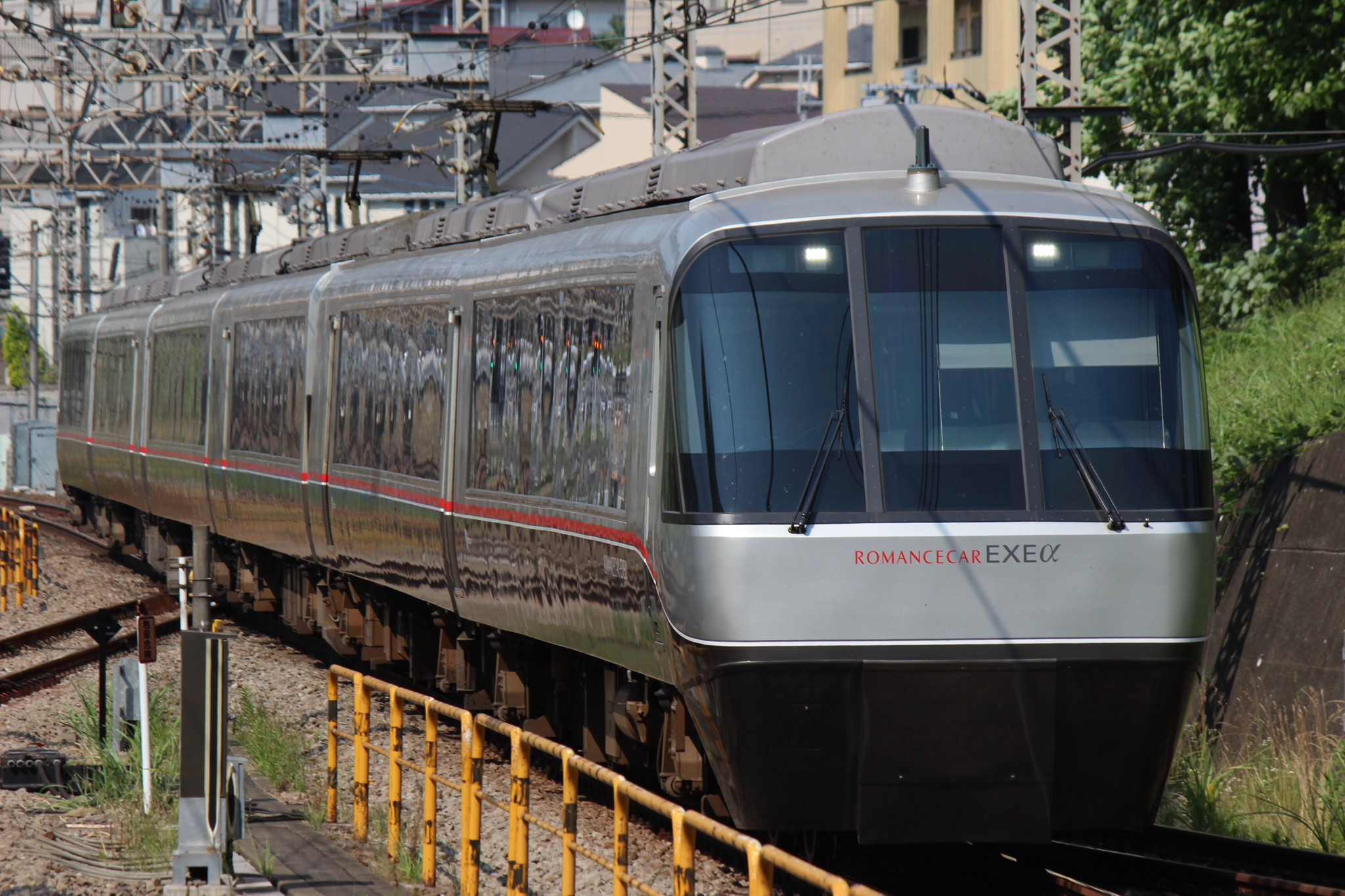 A refurbished Odakyu 30000 series "EXEα" EMU six-car formation